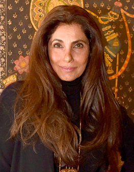 Dimple Kapadia at the Pichvai Exhibition, 2018